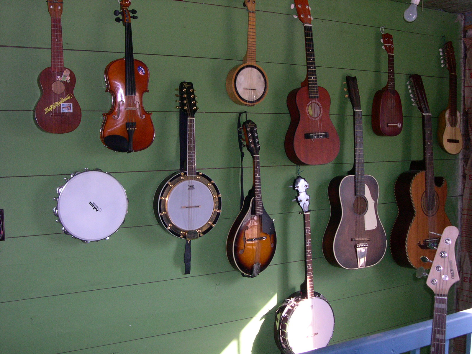 music wall "Henry wants to know when his room isn't just a bed in the music room."